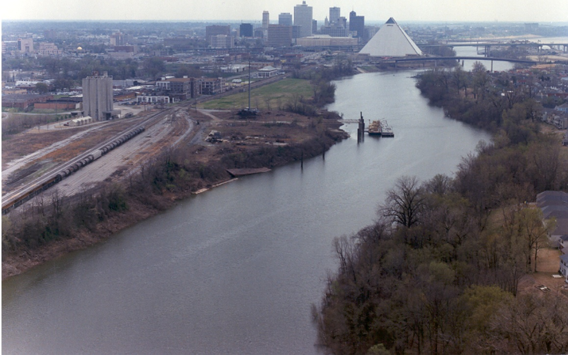 Looking south down Wolf River Harbor with downtown Memphis, Tennessee, on the left, Mud Island on the right, and the Mississippi River in the extreme upper-right corner. This Mississippi River slackwater harbor was part of the Wolf River until 1960 when a canal was cut and a levee raised, diverting the Wolf into the Mississippi at the north end of Mud Island (which is really a peninsula). The photo was taken from 35°10′57″N 90°03′25″W / 35.1825°N 90.05694°W